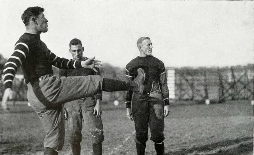 Photograph of Jim Thorpe, instructing Indiana University punters